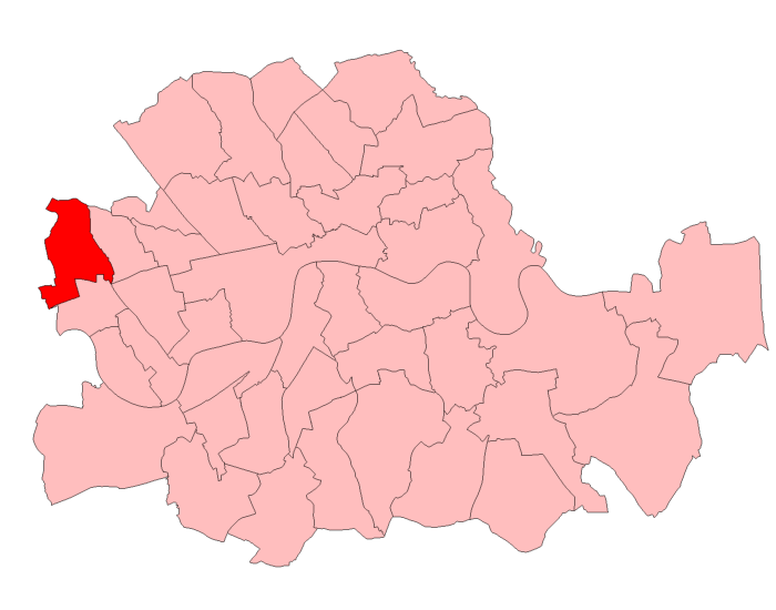 A map of Hammersmith North constituency within the London County Council area, as it existed from 1950 to 1955.